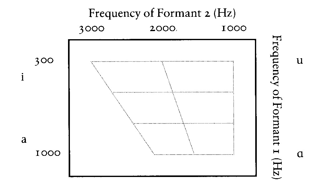 Empty Formant plot showing layout of axes